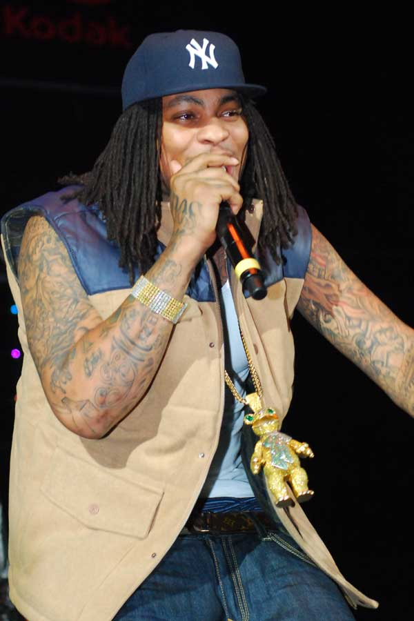 Waka Flocka performs at WGCI Big Jam 2010 at Allstate Arena, Rosemont, IL, USA on December 19, 2010. Photo by Adam Bielawski